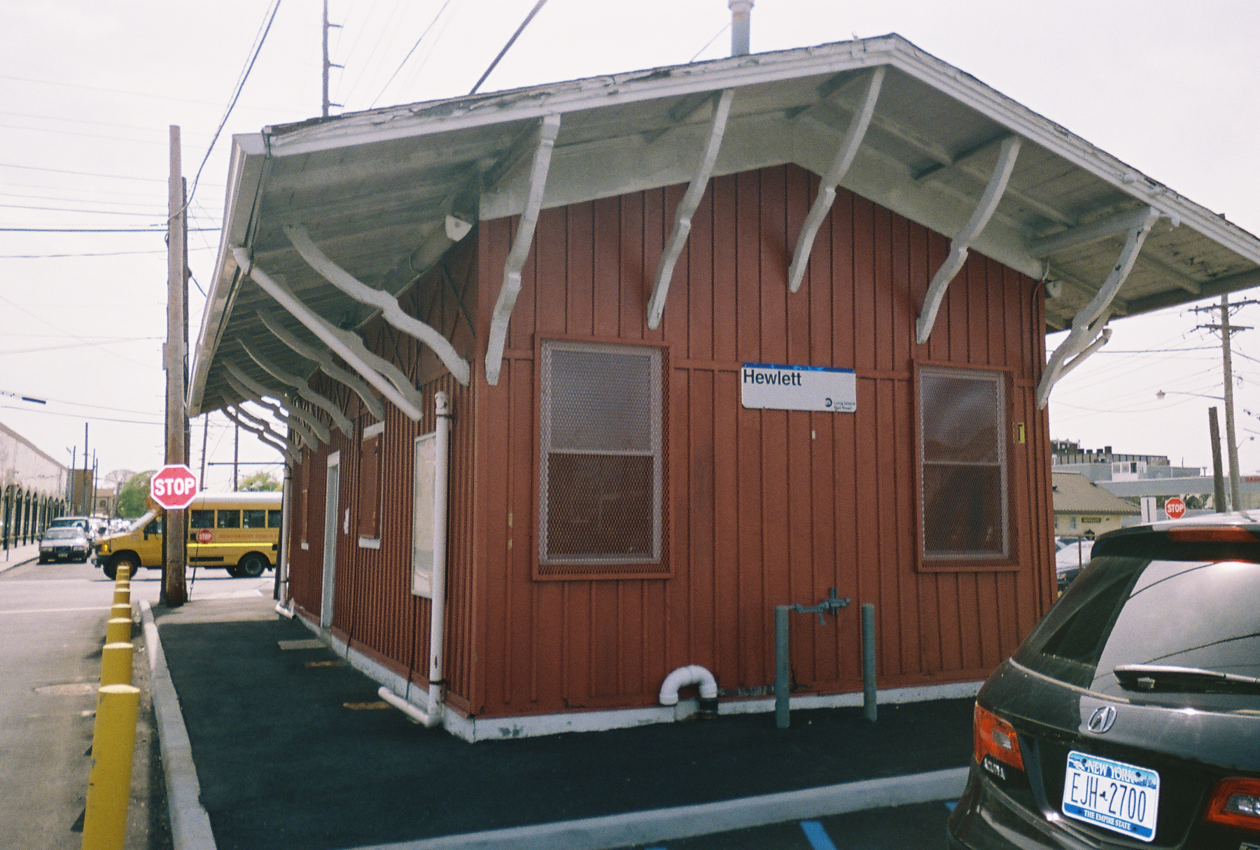 The original Hewlett (LIRR station) originally built by the Southern Railroad of Long Island in 1869, making it the oldest surviving railroad station on Long Island.